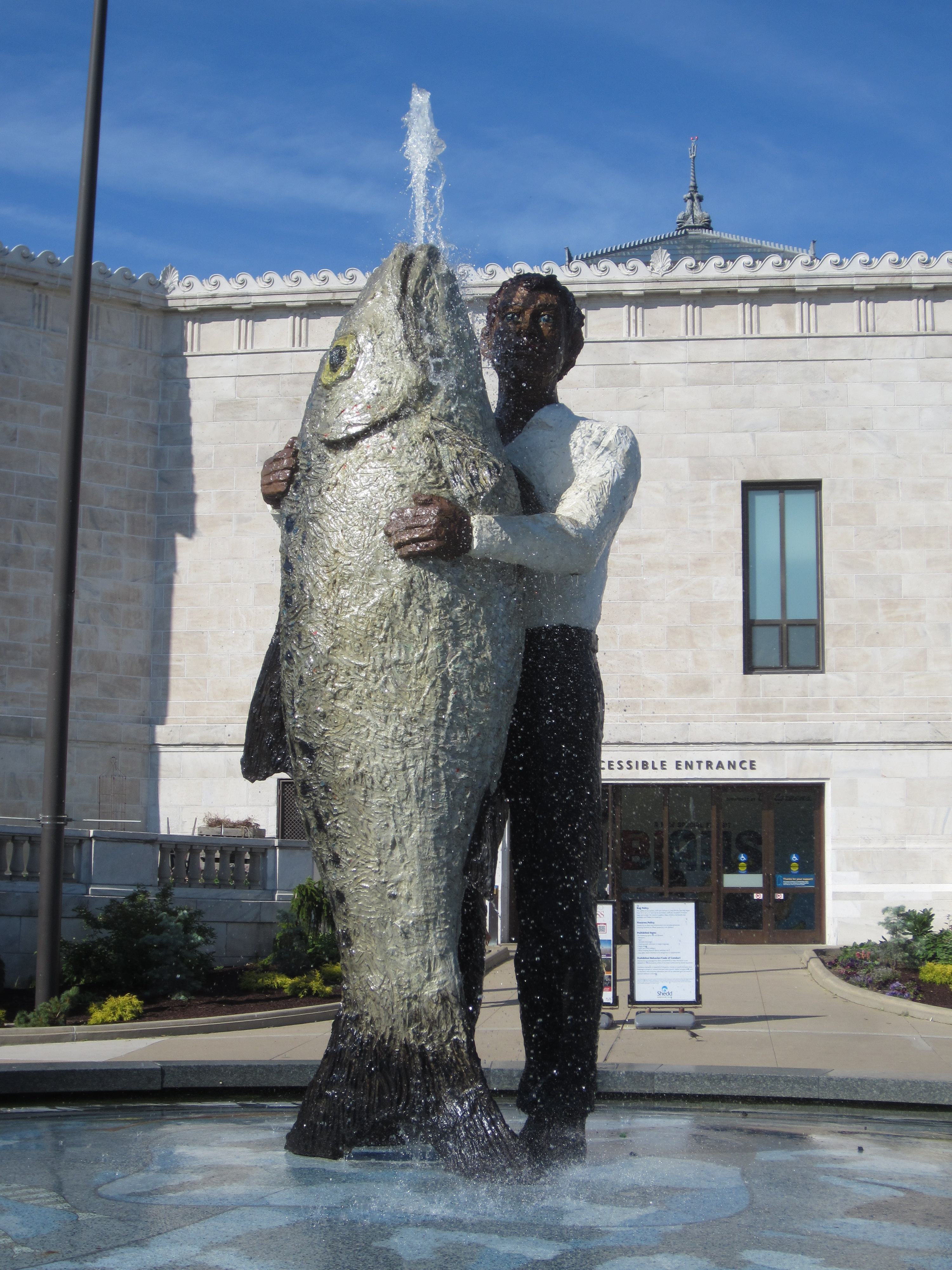 Chicago, Illinois, June 2015